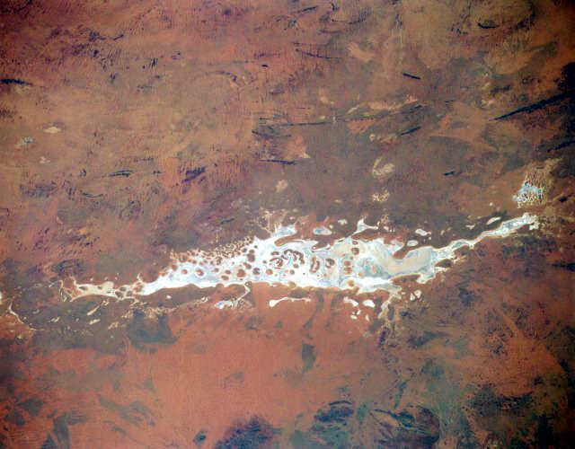 Lake Amadeus, Northern Territory, Australia - November 1994 NASA Photo ID STS066-152-170 Image Caption: STS066-152-170 Lake Amadeus, Northern Territory, Australia November 1994 Located in the southwest corner of Northern Territory and near the geographic center of Australia, Lake Amadeus is one of hundreds of ephemeral lakes (called playas) that characterize the desert landscape of central and especially western Australia. When there has been sufficient rainfall, this lake is part of an east-flowing drainage system that eventually connects to the Finke River. Like other ephemeral lakes in central Australia, water quality is “fresh” immediately after it rains but rapidly becomes brackish in a short period of time. Lake Amadeus is a major water discharge area for central Australia, and ground water seeps to the surface around the periphery of the lake. The darker features within the flat plains of the playa (whitish area) are slightly elevated, vegetated islands. Most of the surrounding terrain is covered by sand dunes, sand ridges, and desert vegetation. The length of the lake is approximately 75 miles (120 kilometers).